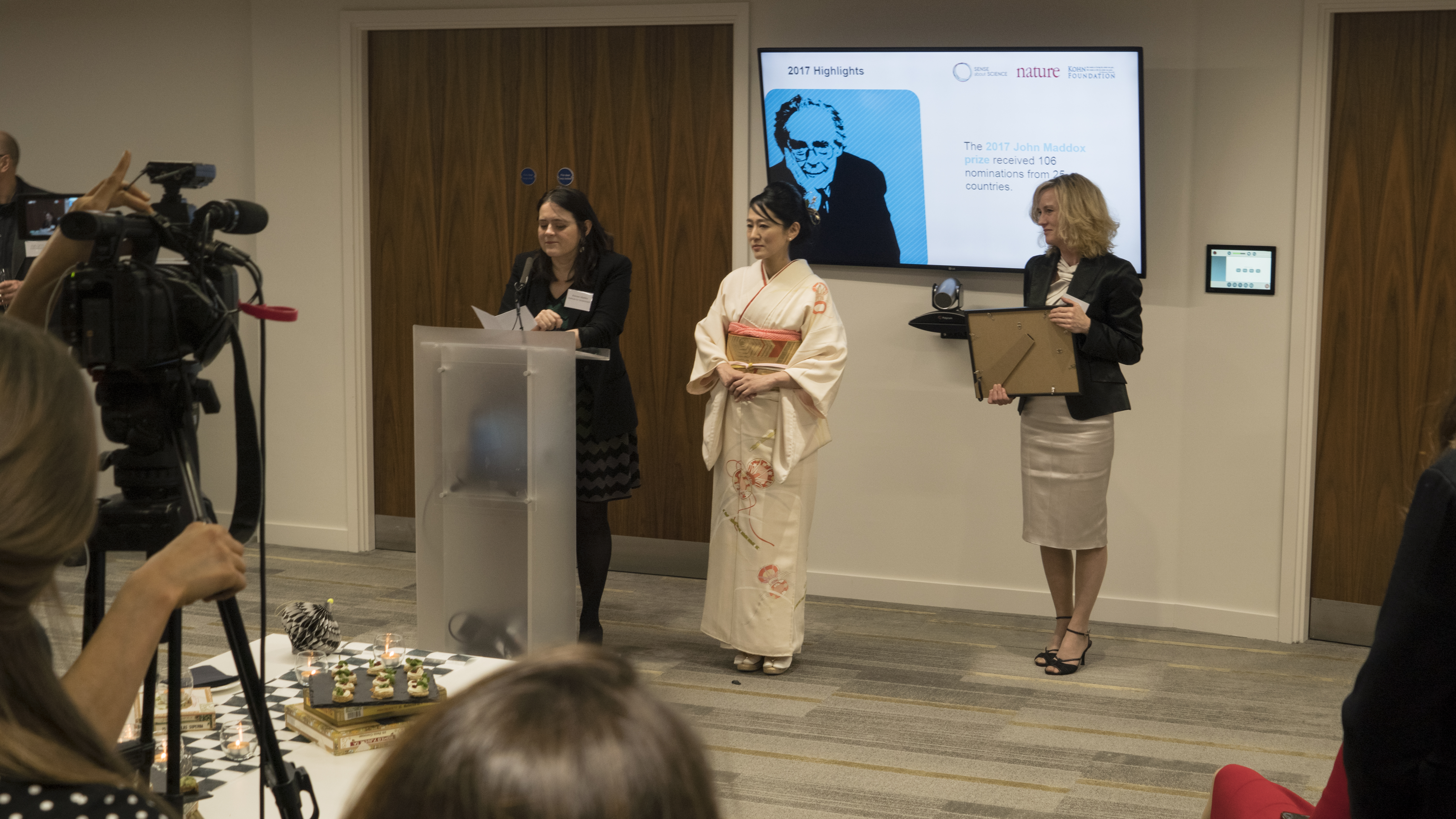 Riko Muranaka receiving the 2017 John Maddox award at the Royal Pharmaceutical Society.